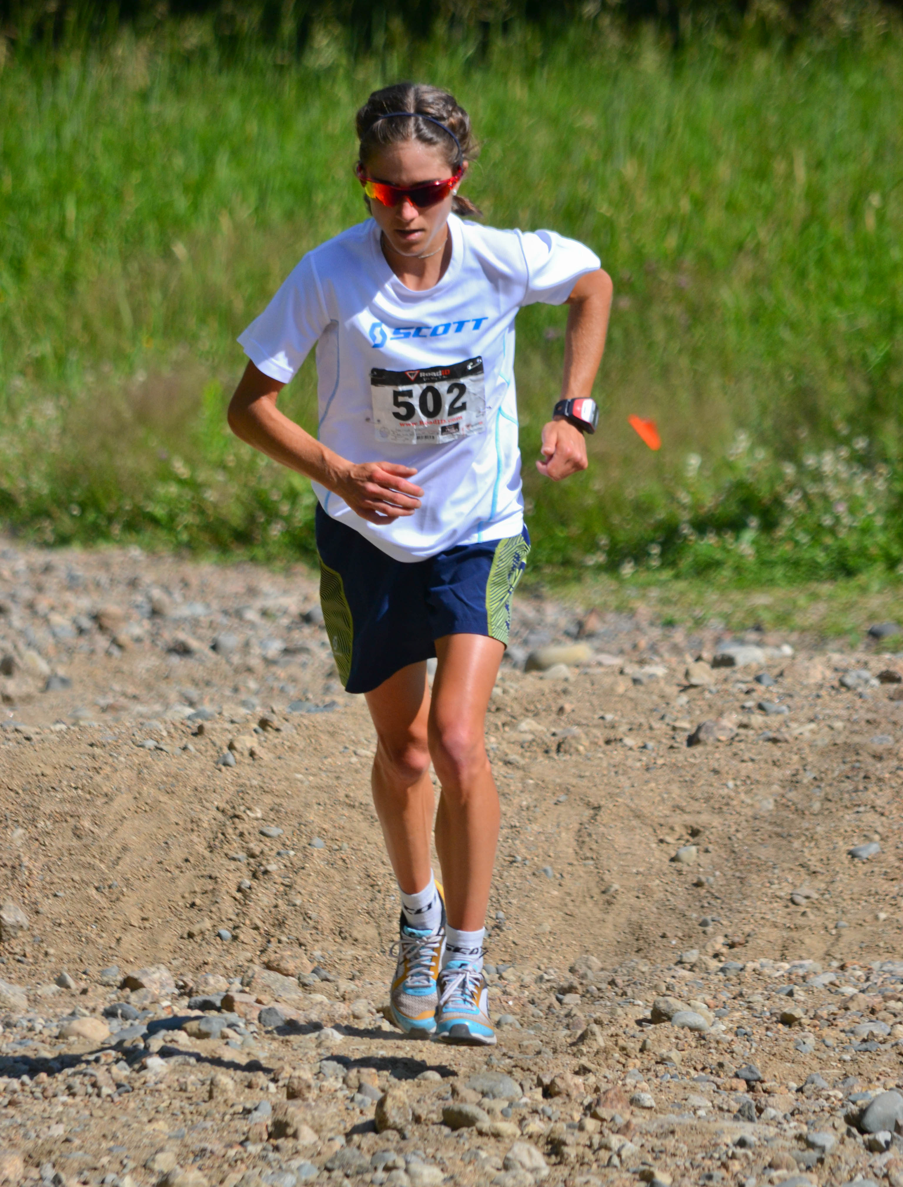 Morgan Arritola at 2012 Loon Mountain Race